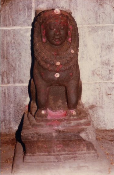 Photo of purushamriga or Indian sphinx by Raja Deekshitar. This is the male purushamriga situated at the east entrance of the Shri Shiva Nataraja temple in Chidambaram, India. The author uploads this image and gives permission for its free use provided the image is attributed to the author. This is a scan from photo print.